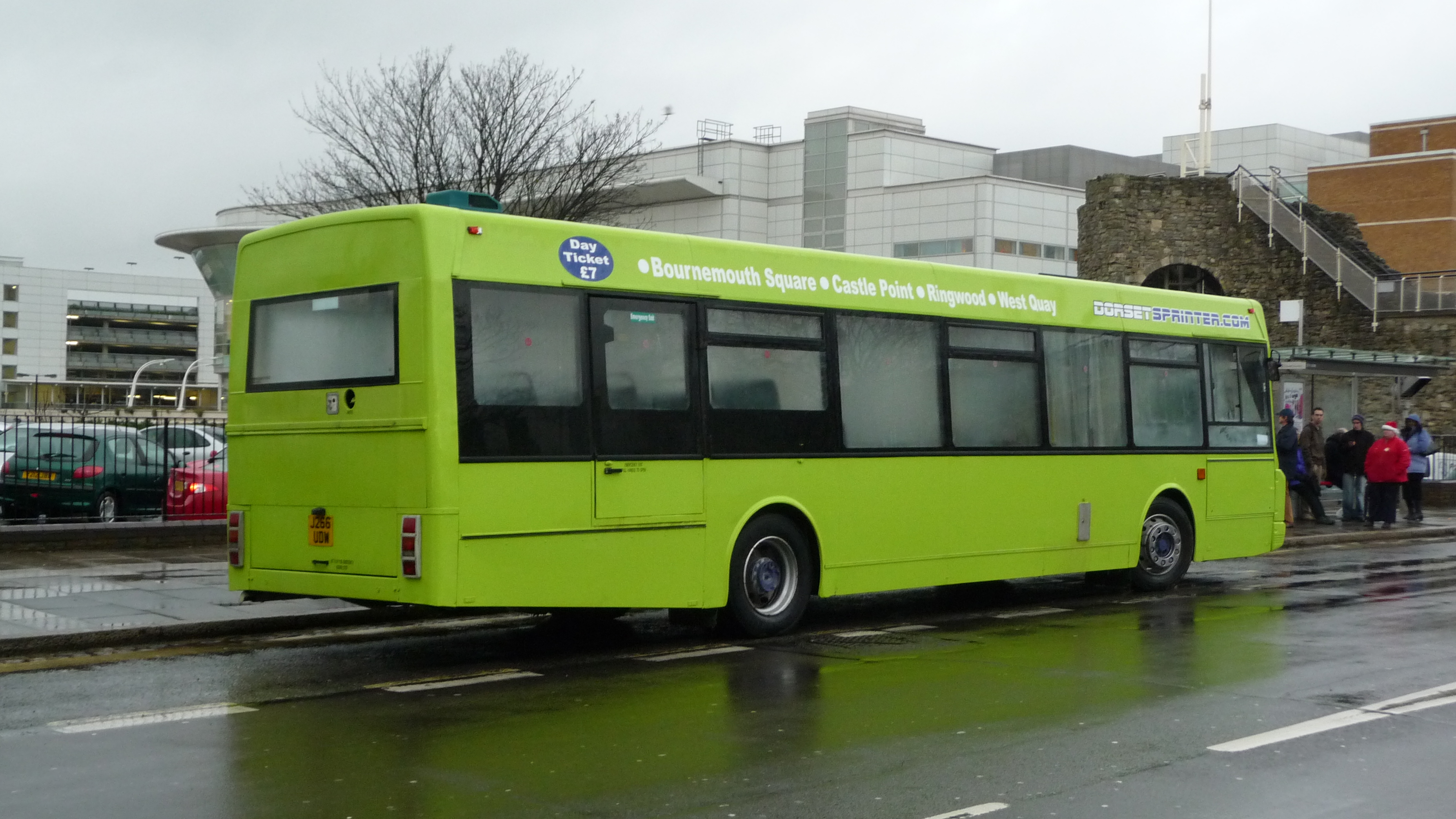 Travelguest, trading as Dorset Sprinter J266 UDW, a Leyland Lynx, in Castle Way, Southampton, laying over between duties on route X5. It was acquired from Cardiff Bus, and from this angle, you can see one of the pods on the roof at the back, is still in the dark green Cardiff Bus livery.